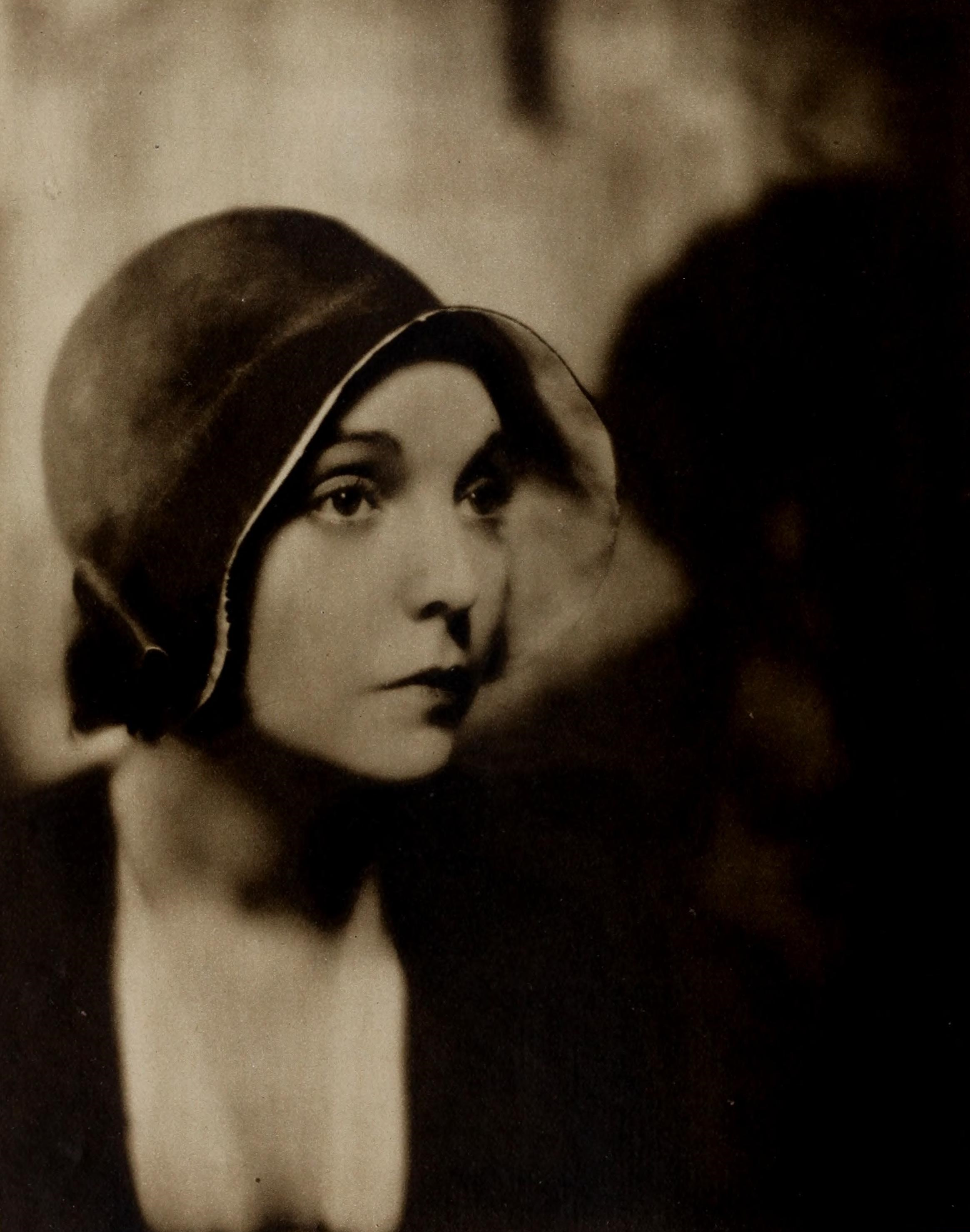 Motion Picture. Photographer credited as Bredell.